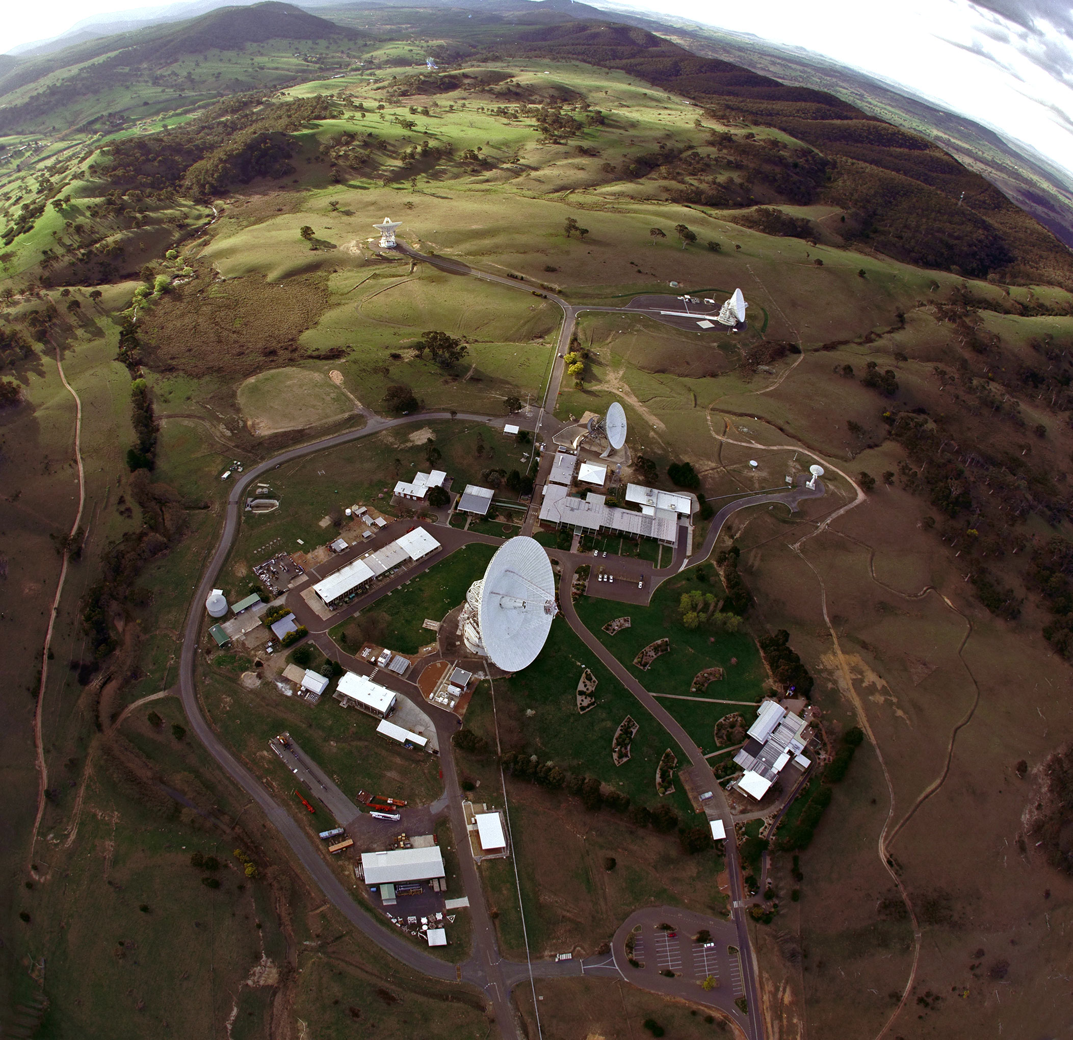 View of the Canberra Complex showing the 70m (230 ft.) antenna and the 34m (110 ft.) antennas. The Canberra Deep Space Communications Complex, located outside Canberra, Australia, is one of the three complexes which comprise NASA's Deep Space Network. The other complexes are located in Goldstone, California, and Madrid, Spain. From